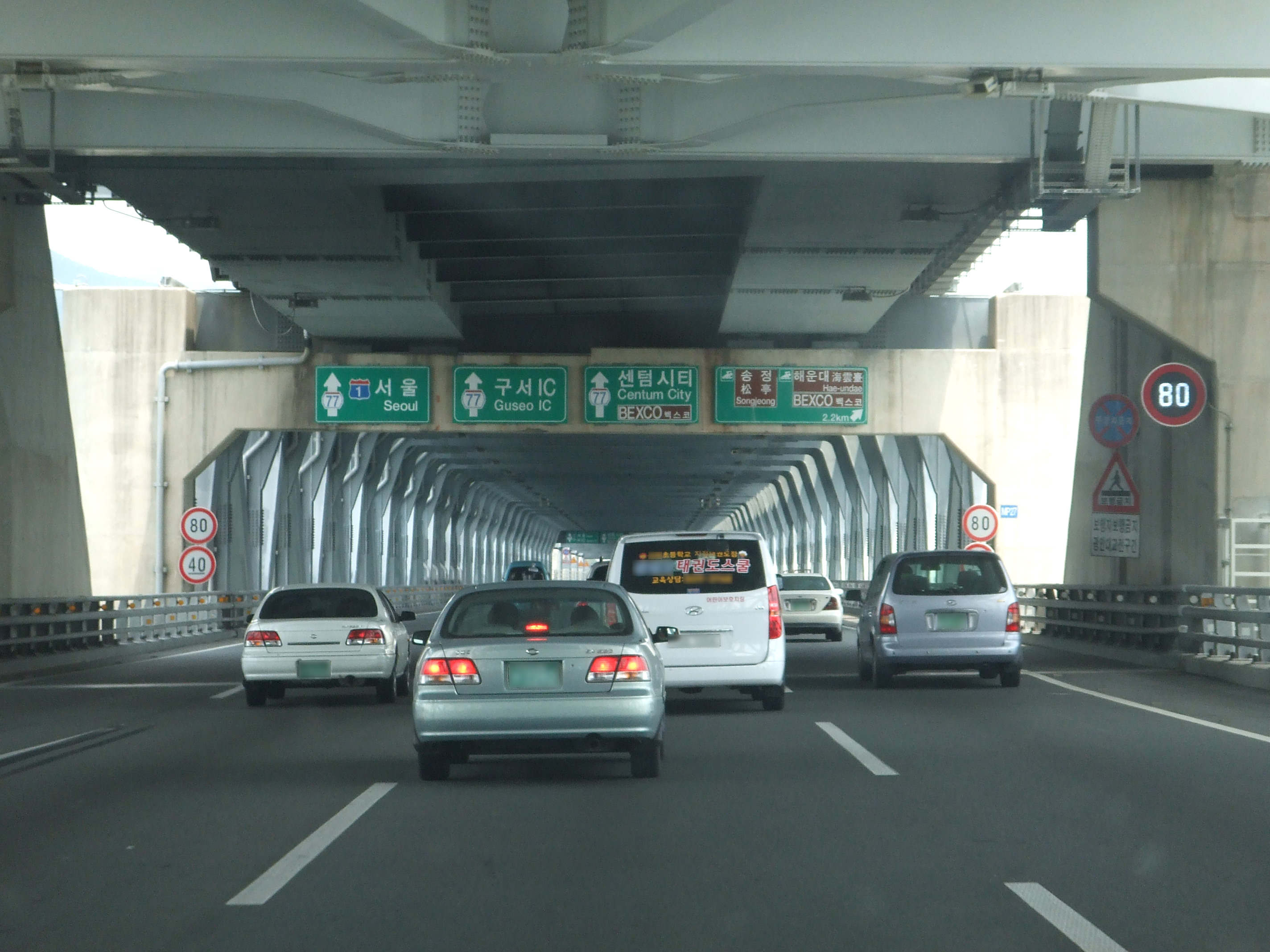 The road on the Gwangan Bridge for Haeundae